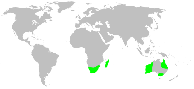 Archaeidae habitat distribution, drawn after Platnick: World Spider Catalog 7.0. This is not a precise rendering of the distribution! If you have better information, please replace this map, or send me the info, and i will redraw it.